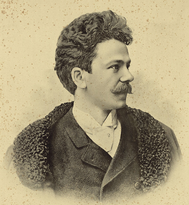 Portrait of Werner Alberti, tenor (1863-1934).